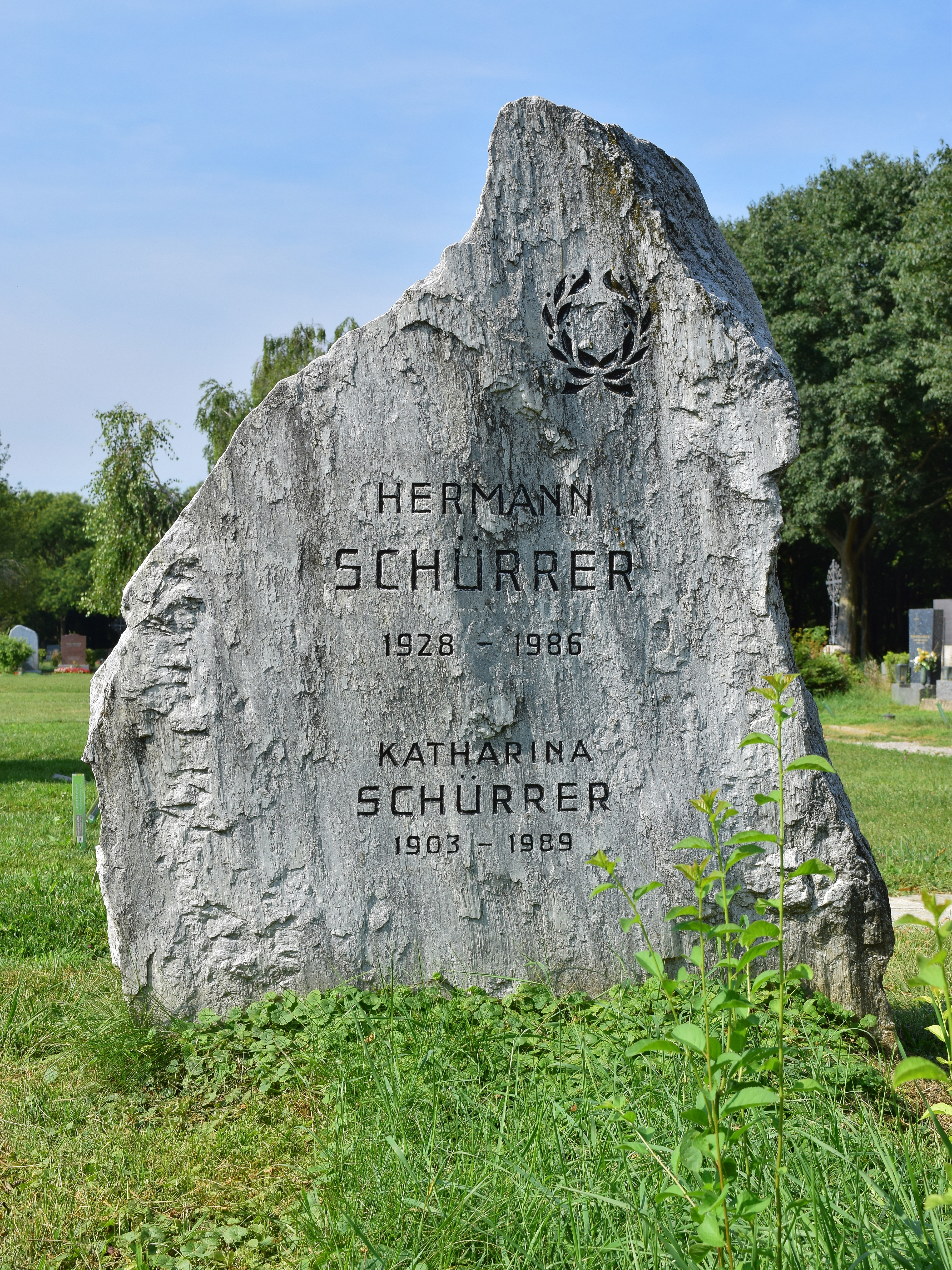 Grave of honor of the Austrian writer Hermann Schürrer at the Wiener Zentralfriedhof